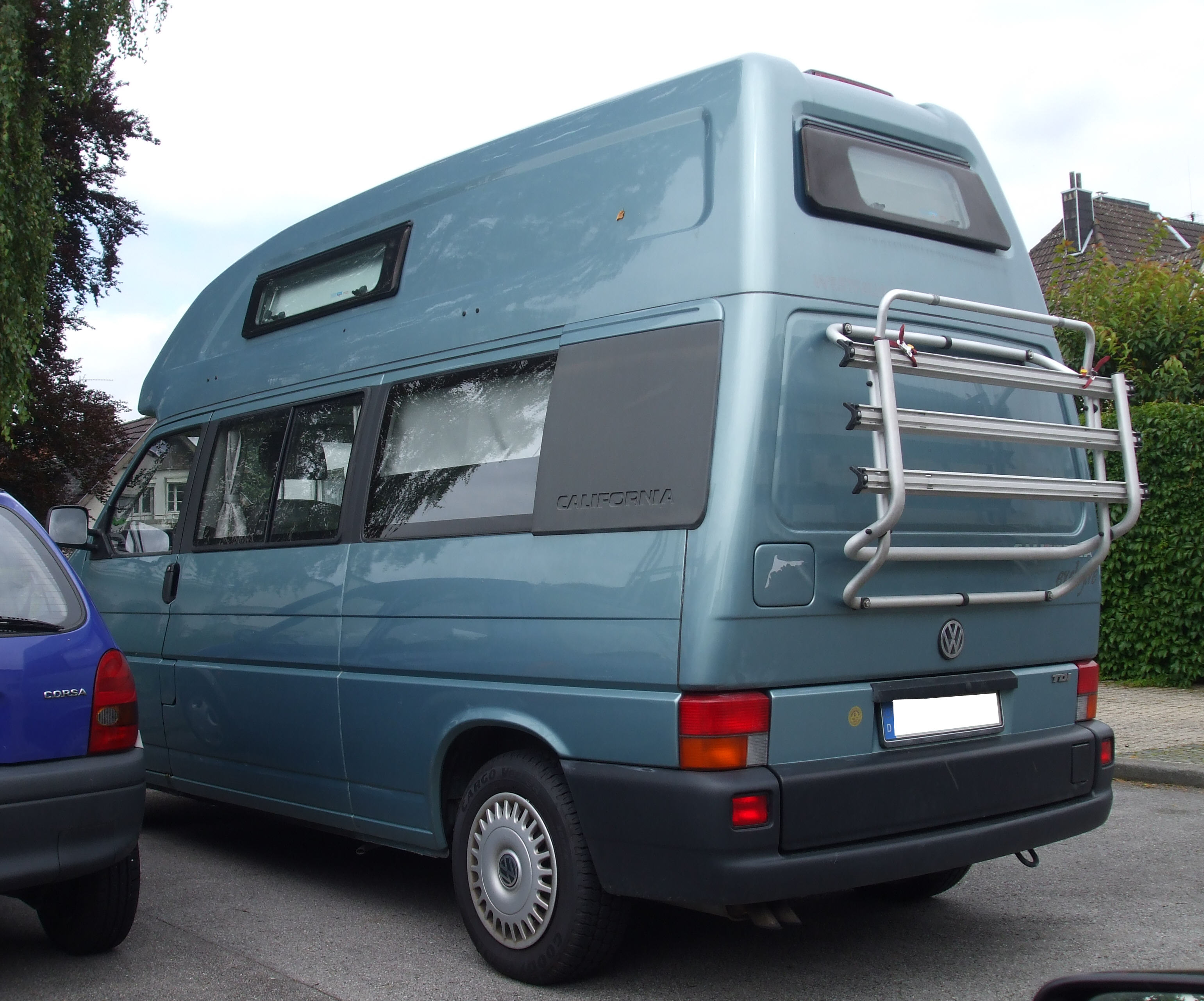 Westfalia camping vehicle «California»